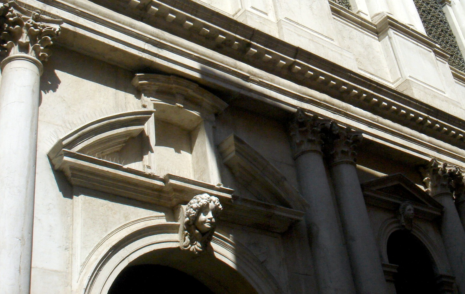 Venezia: Scuola Grande dei Carmini